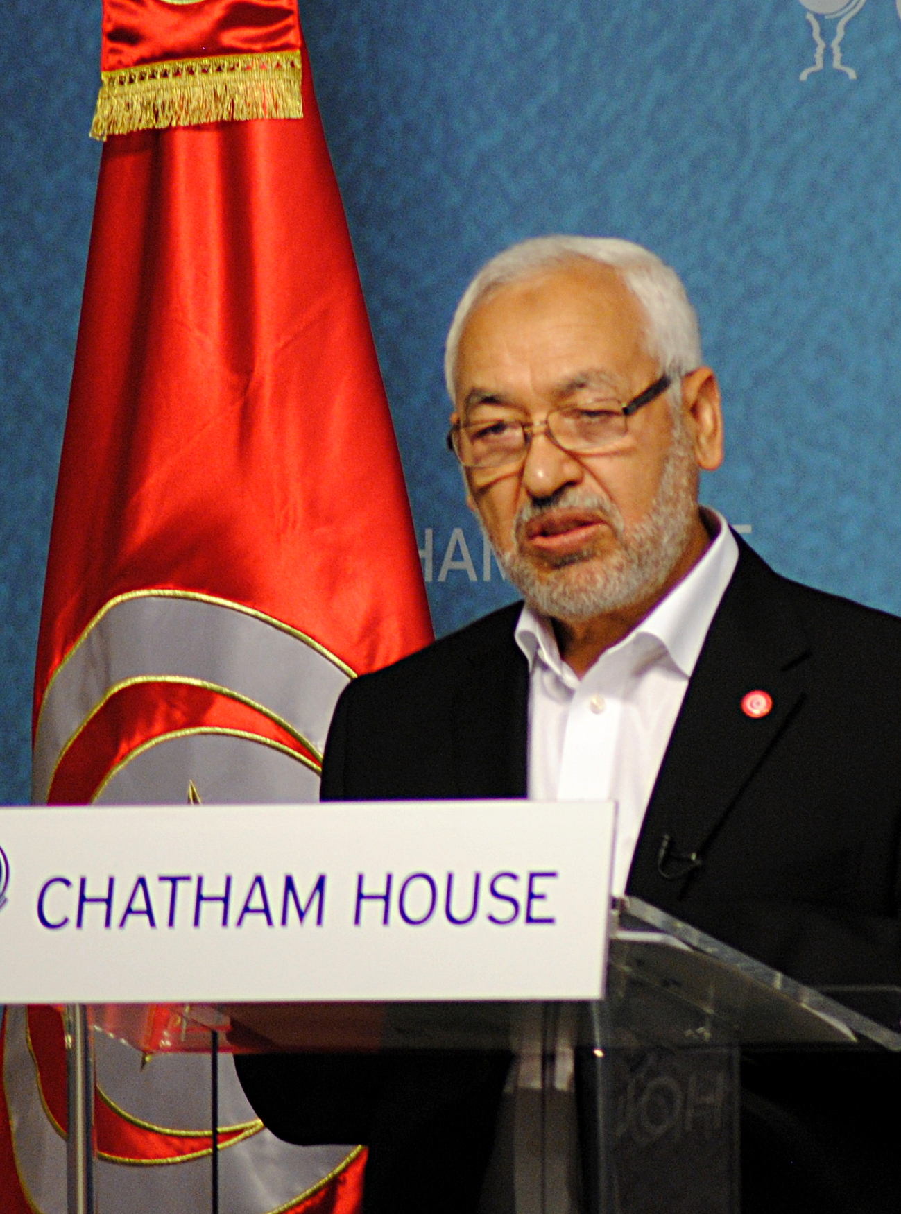 Rached Ghannouchi speaking after receiving the Chatham House award 2012 This file has been extracted from another file: Sheikh Rached Ghannouchi.jpg